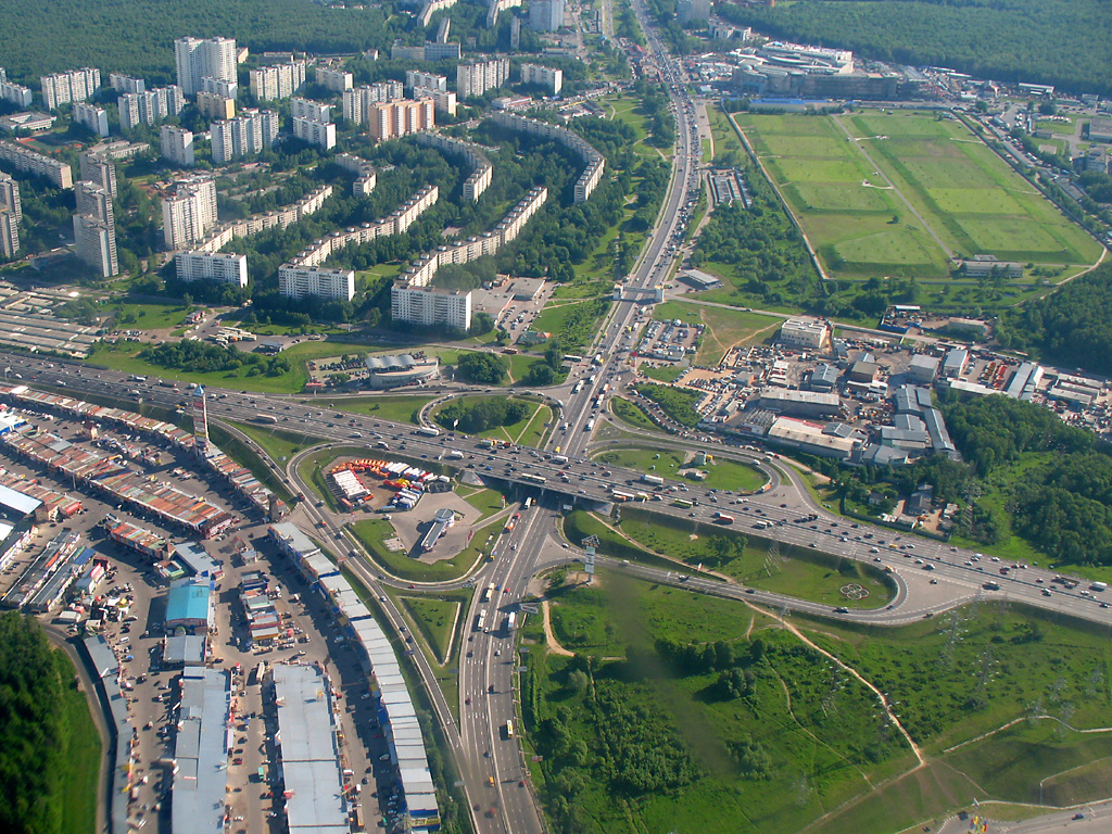 Interchange of MKAD beltway and Profsoysnaya Street in Moscow. The large green in far right houses underground water supply tanks. This photo was taken from AN-24 plane from Tambov, approaching Vnukovo airport in Moscow.